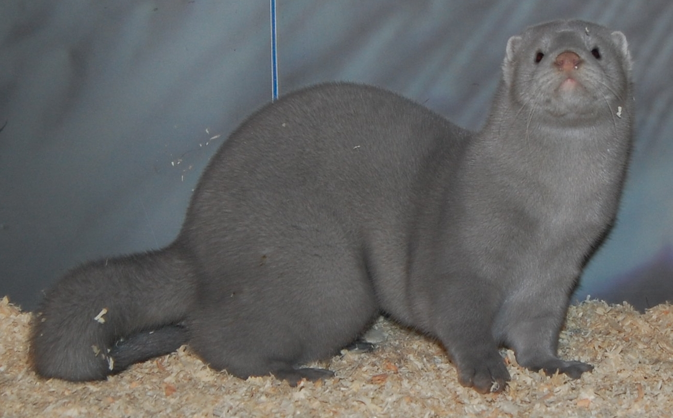 Silverblue Mink ( Neovison vison), Poland